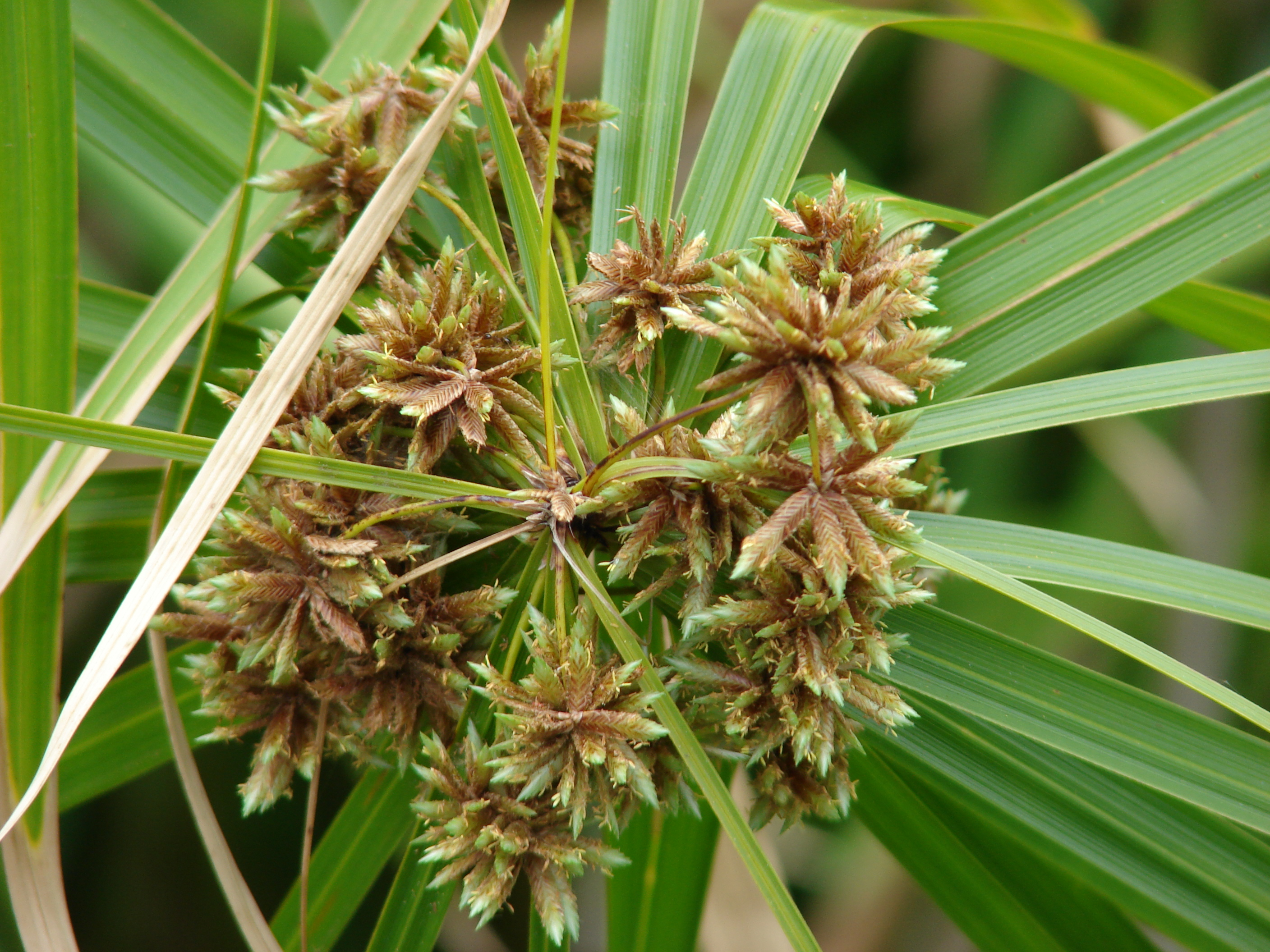 Cyperus involucratus (seeds). Location: Maui, Keokea